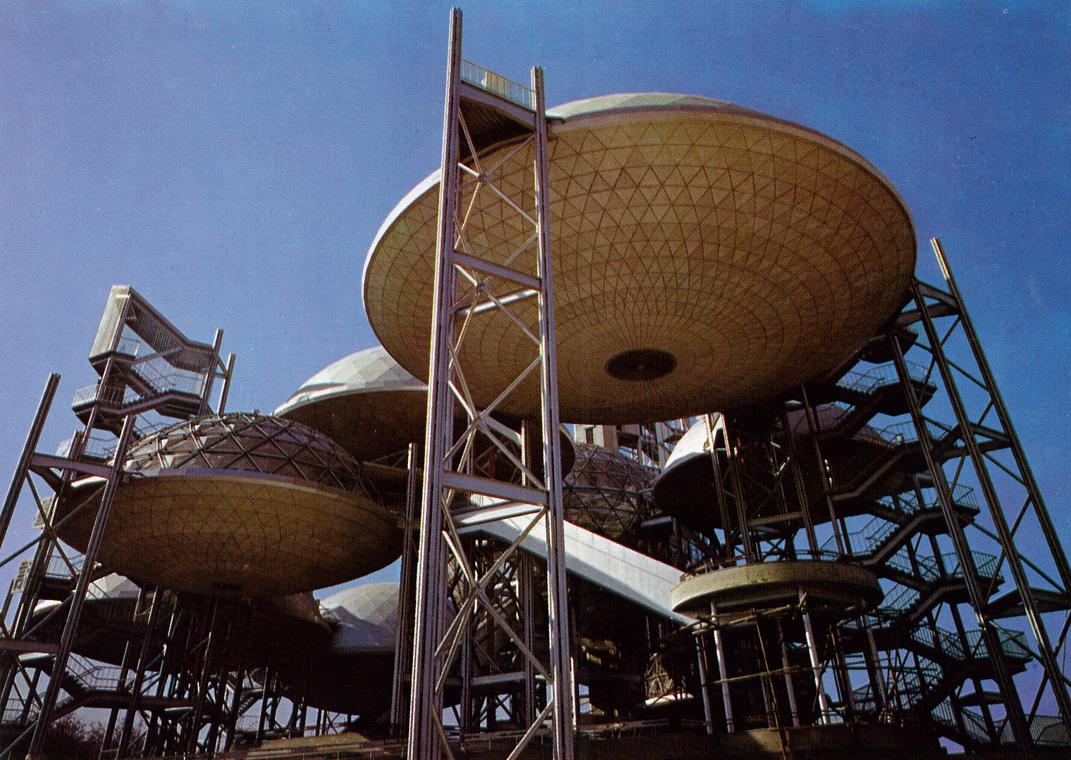 Sumitomo Fairy Tale Pavilion, Osaka Expo'70